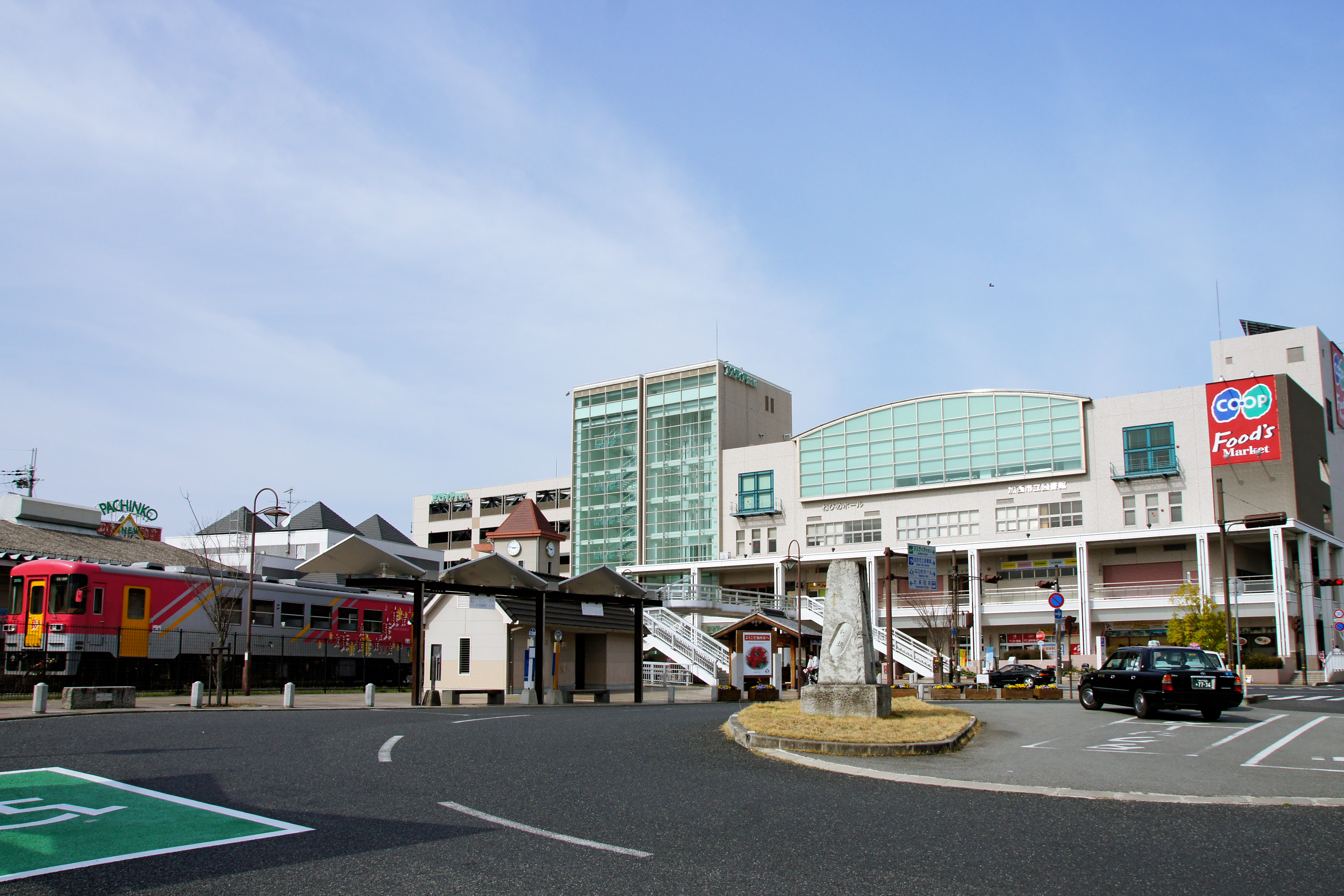 Asuteer Kasai (Kasai City Library, Nehime Hall) in Kasai, Hyogo prefecture, Japan.